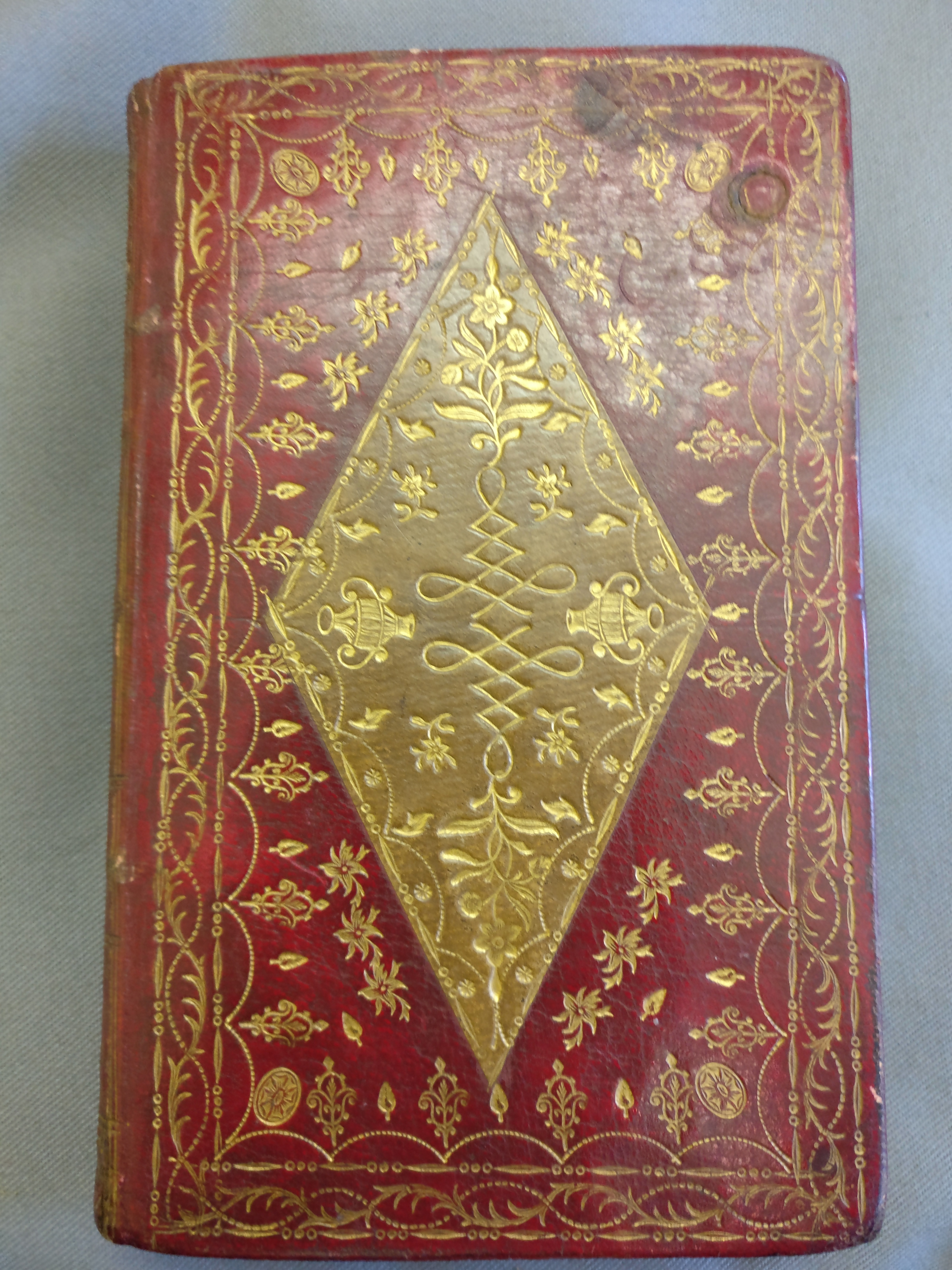 The Old Moore's Almanac started its life in 1764 as the 'Irish Merlin.' This is the cover of the 1792 edition, it can be fround at the National Library of Ireland, in Kildare Street, Dublin.